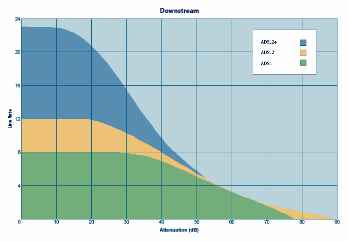 Representation of speeds obtainable for different ADSL technologies with respect to line attenuation. Original (template) image can be found at